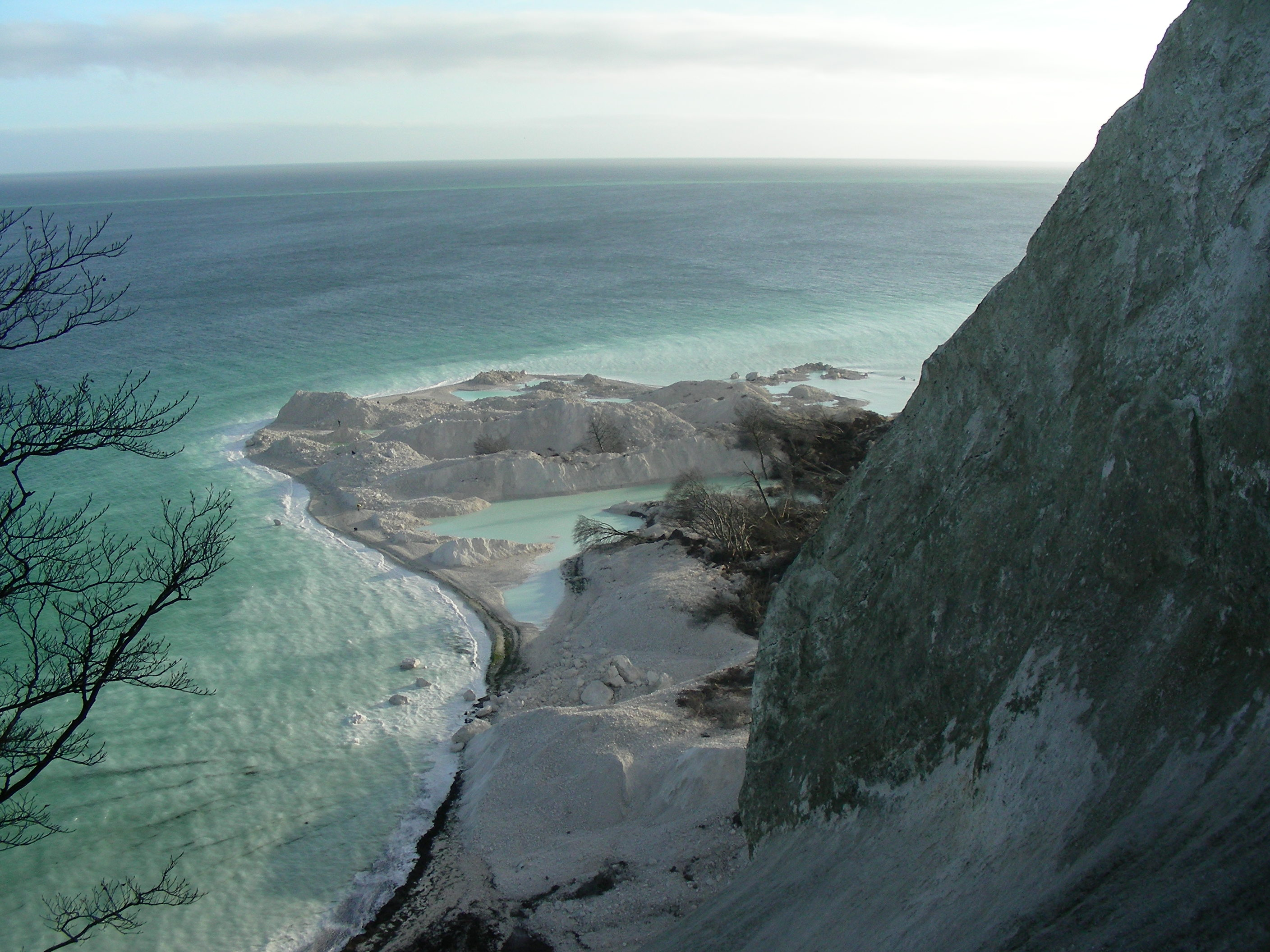 Image of Moens Klint, Denmark, after cliff fall January 2007